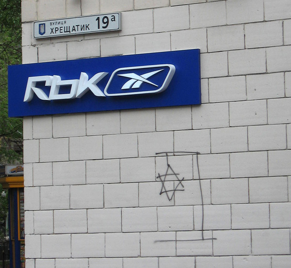 Anti-Semitic graffiti in Kiev